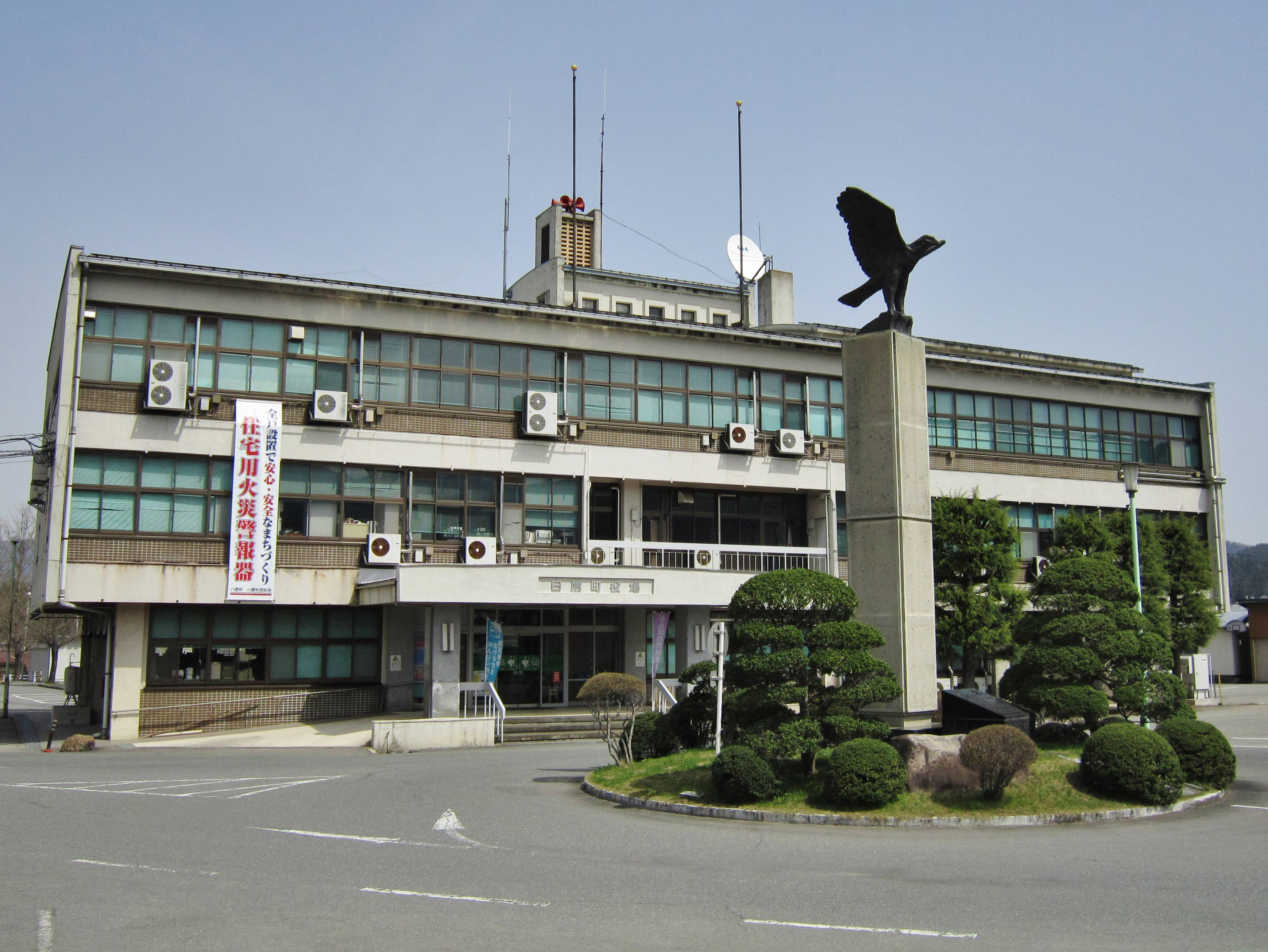 Shirataka town office.